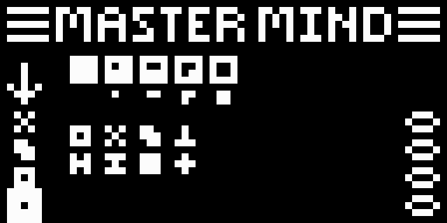 Mastermind game start screen Pixie graphics example snapshot via Octo Chip-8 emulator in 64x32 resolution.